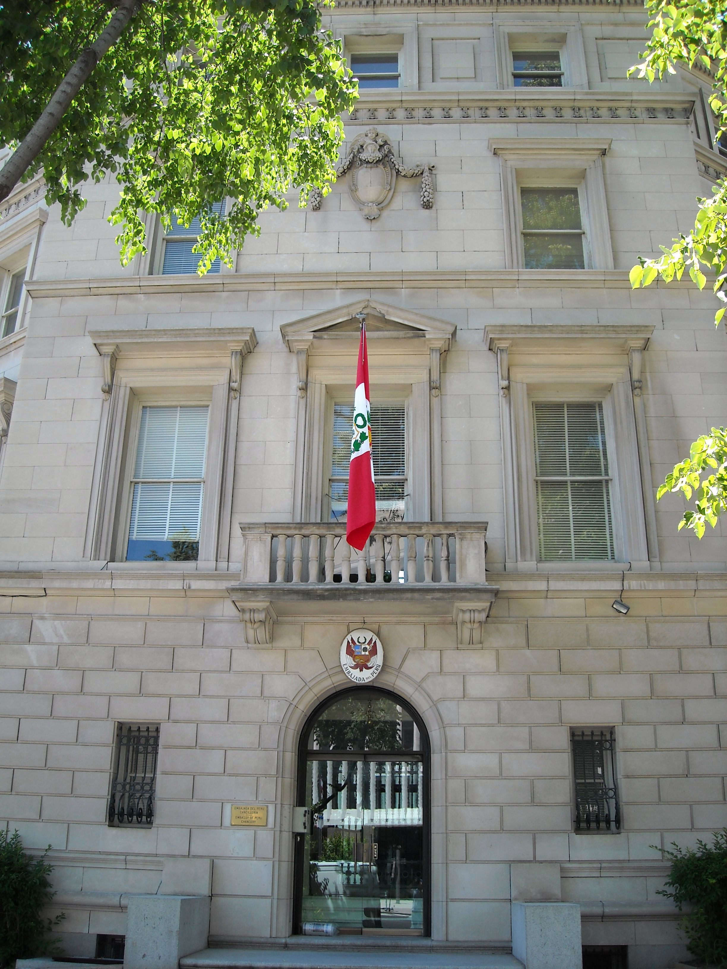 Embassy of Peru to the United States. Located in Washington, D.C. It was the Canadian embassy until 1973.